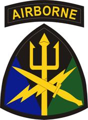 Shoulder Sleeve Insignia Description/Blazon: A shield 2 3/4 inches (6.99 cm) in width and 3 inches (7.62 cm) in height overall, embowed and inverted, point being upwards, divided per pale ultramarine blue to dexter side, green to sinister, with a black pile issuing from the point throughout, charged with a yellow trident issuing from base surmounted by a yellow lightning bolt and dagger saltirewise, all within a 1/8 inch (.32 cm) black border. Attached above the insignia is a black arced tab inscribed "AIRBORNE" in yellow letters. Symbolism: Ultramarine blue signifies the air and sea mission, while green denotes ground missions. The black V-shape area refers to victory and power. The three symbols, trident, lightning bolt and dagger are adapted from the Special Operations Command, Atlantic Command, the unit's predecessor. The trident, a symbol of naval prowess, symbolizes the Navy SEAL Teams and special boat units. The lightning bolt denotes the Air Force Special Operations, rapid response and aerospace power. The dagger associated with the Army forces (Special Forces, Rangers, PSYOP and Civil Affairs), also represents total military preparedness and readiness for deployment. Each symbol represents the three parts that form the whole of the Special Operation Command Joint Forces Command.